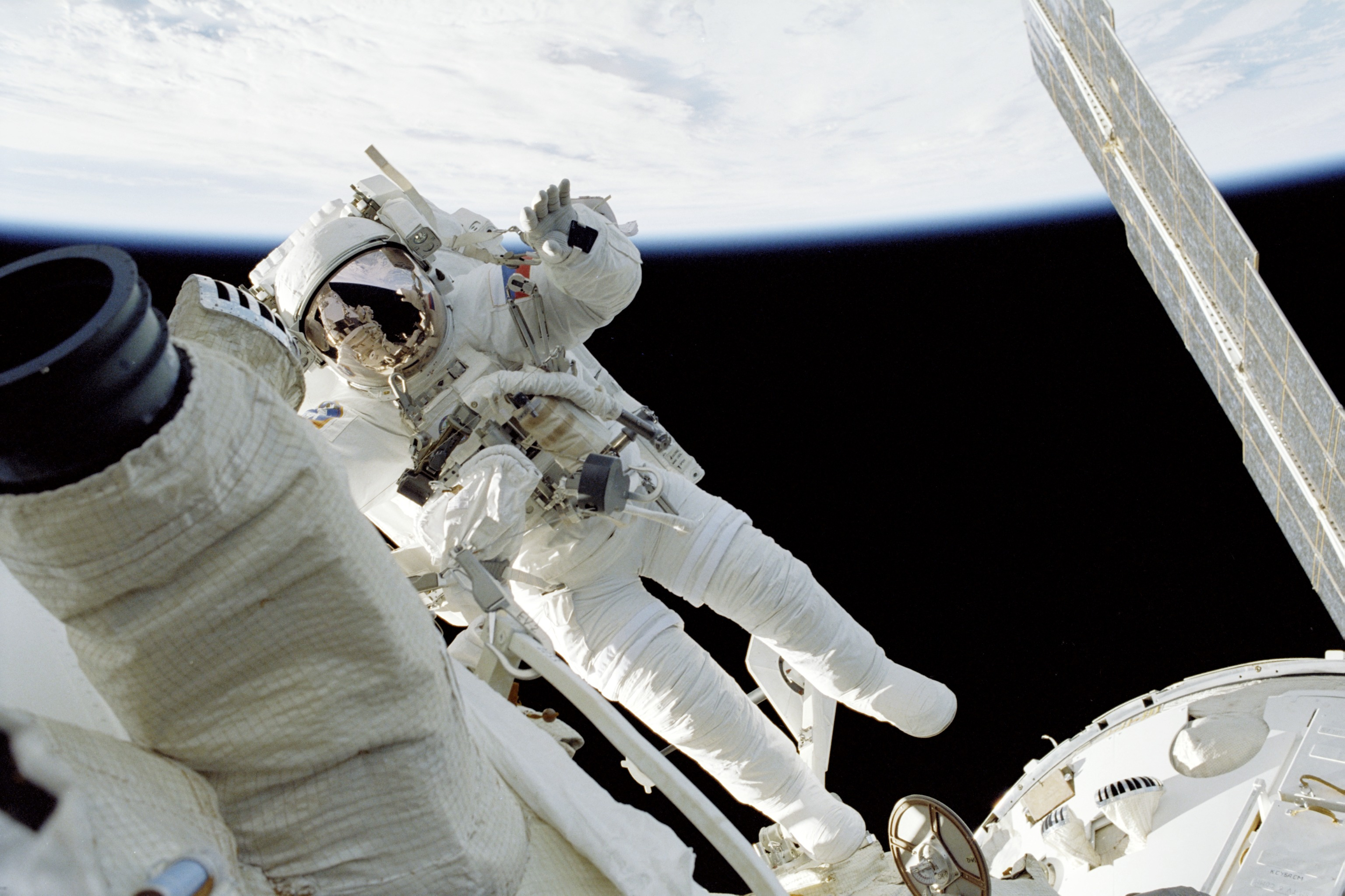 Cosmonaut Yuri I. Malenchenko, mission specialist, was captured on film by his spacewalking colleague, astronaut Edward T. Lu, during the 6-hour-plus space walk the two performed on the exterior of the International Space Station (ISS). Malenchenko was one of two mission specialists on the 12-day flight who represented the Russian Aviation and Space Agency.